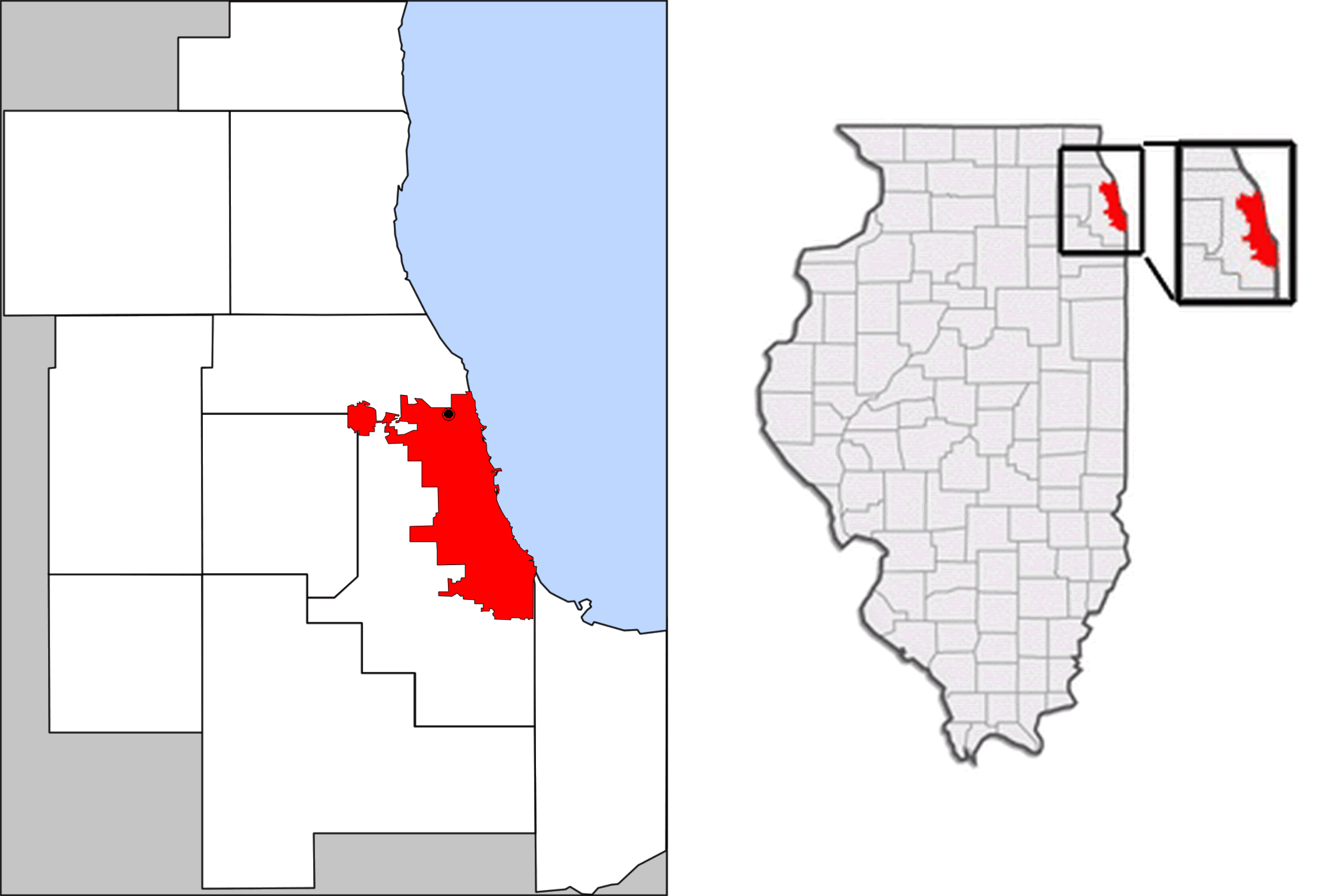 Location of NEIU in Chicago